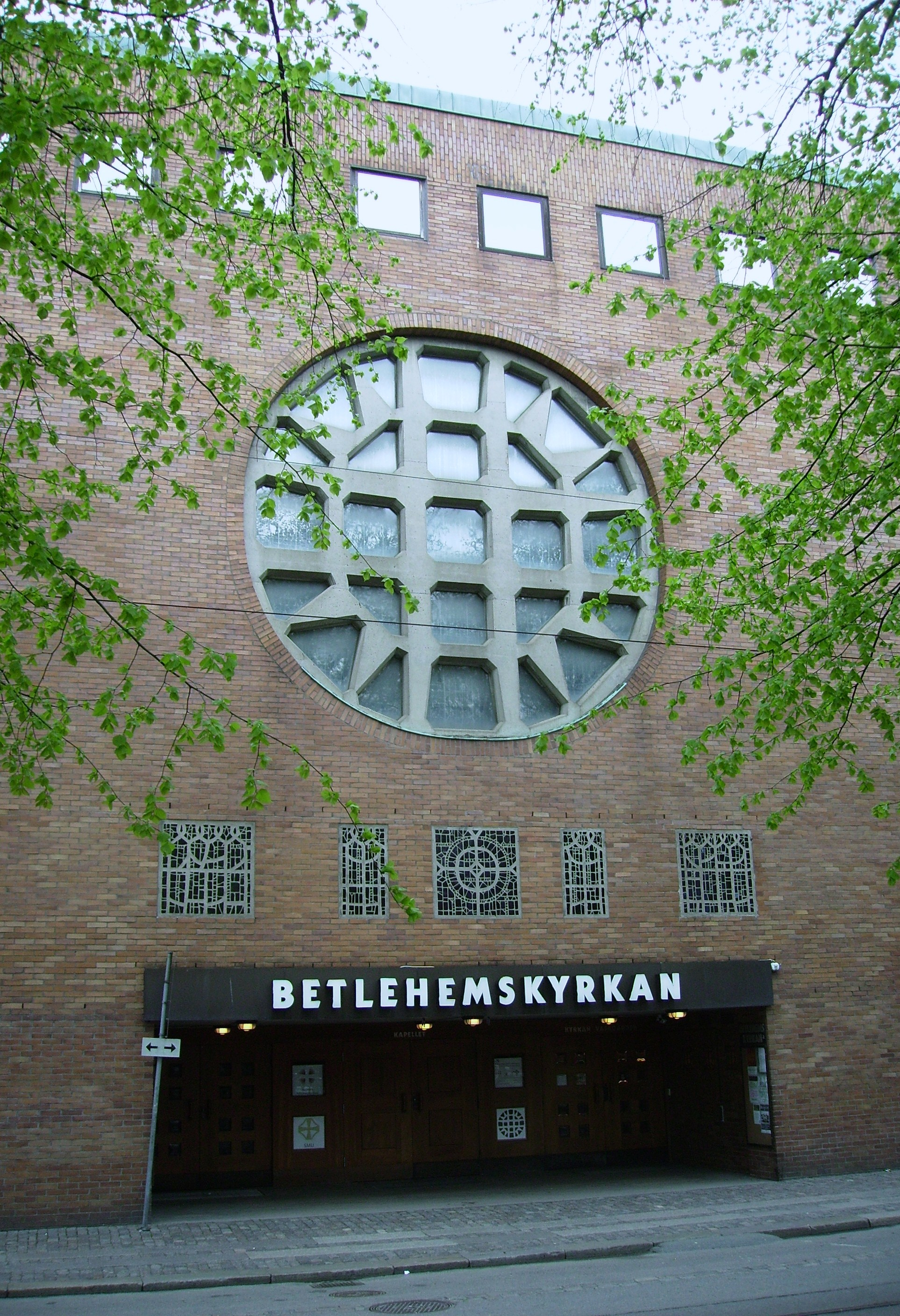 Picture of Betlehemskyrkan in Göteborg